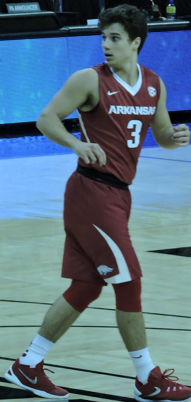 Doral Moore and Bryant Crawford on the floor for the Demon Deacons